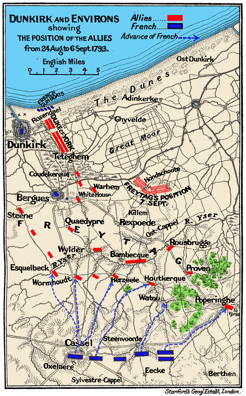 The Siege of Dunkirk and Battle of Hondschoote. Coloured adaptation of original by George Stanford, in Fortescue 'A History of the British Army' Vol 4 (1917).